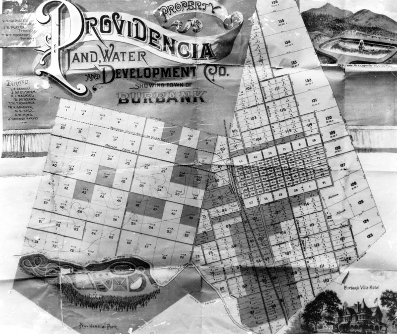 Early Map of Burbank, CA as envisioned by the Providencia Land, Water, and Development Company, c. 1887.